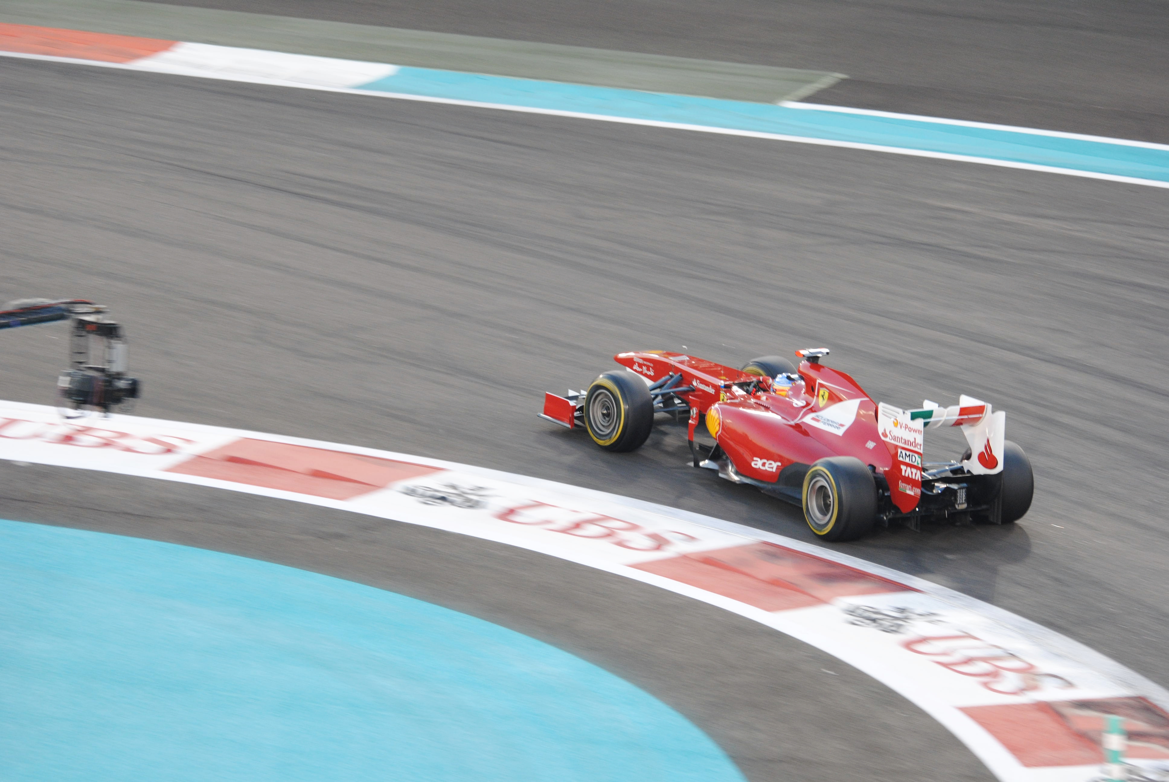 Fernando Alonso Abu Dhabi GP 2011 Racing